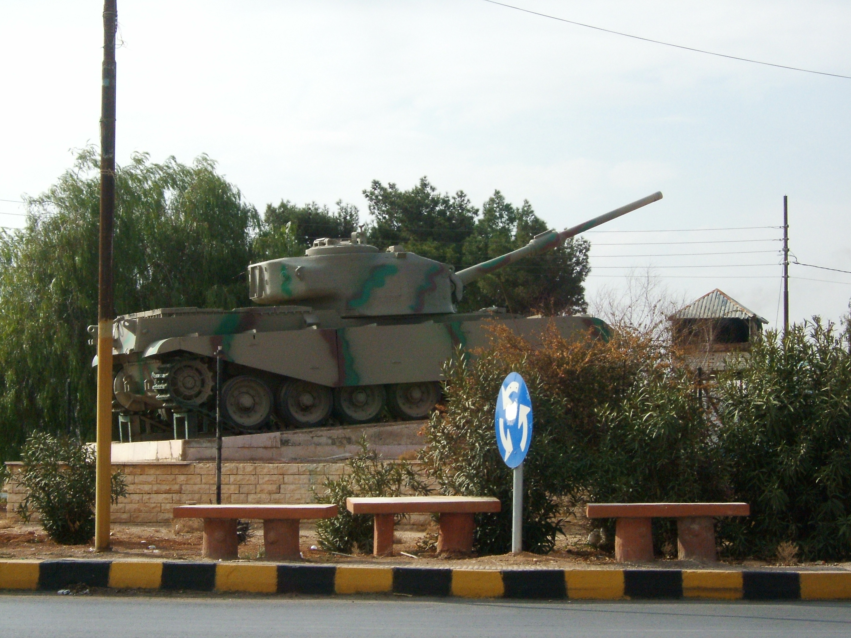 The Tank Circle in Mafraq, Jordan.